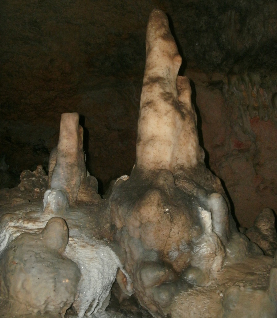 Photo from book “Two hundred days in Latin America” © 2017 Viktor Pinchuk ISBN 978-5-9909912-0-0